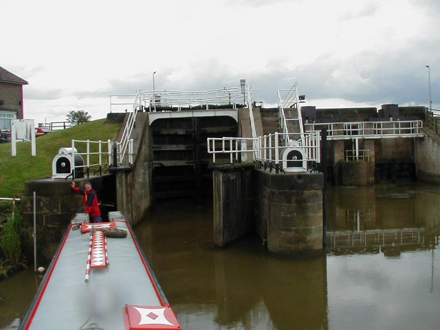 Weighton Lock, Market Weighton Canal, East Riding of Yorkshire, England.Landward side of the 'sea' lock and sluice at the S end of the Market Weighton Canal